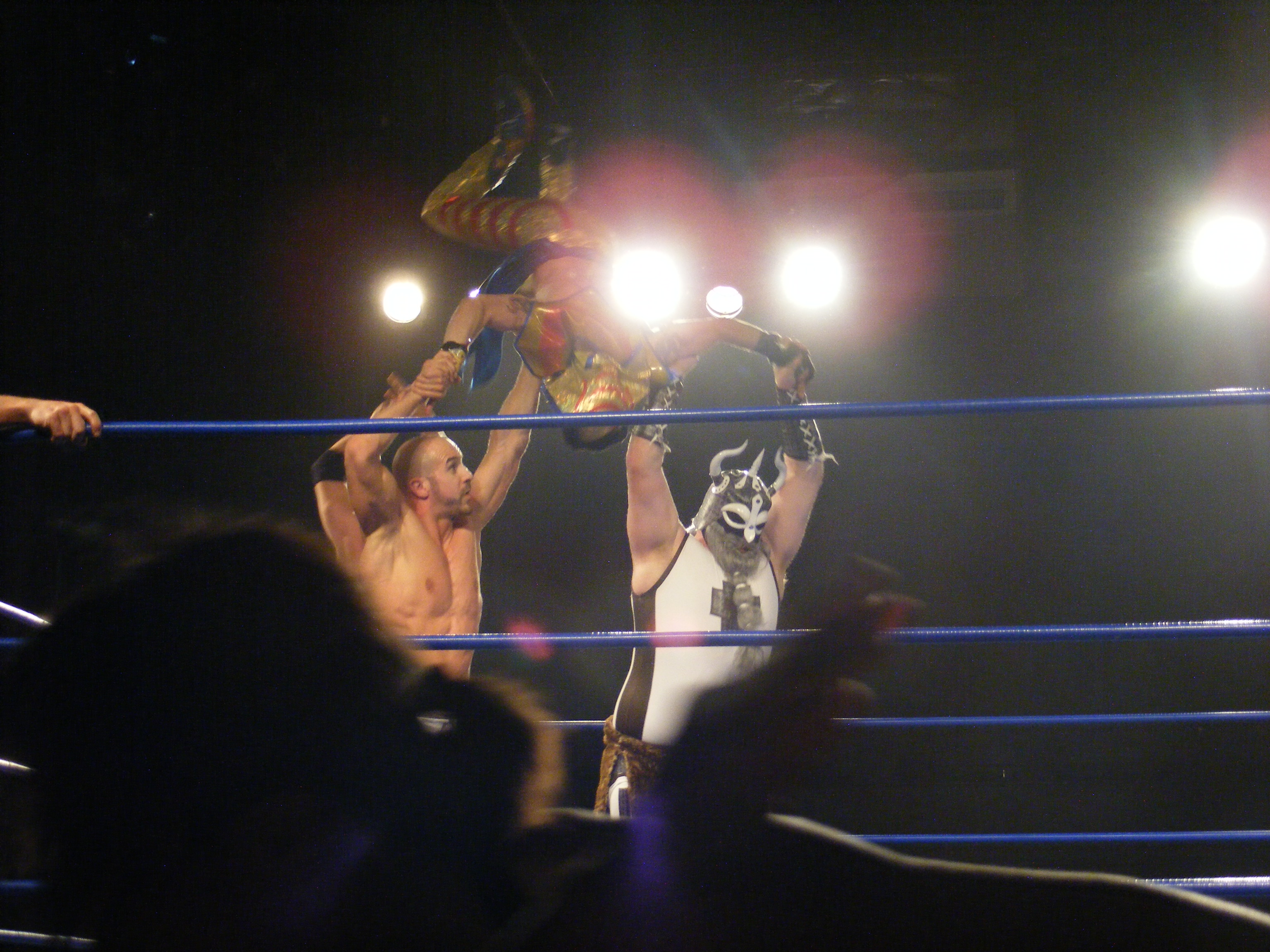 Professional wrestlers Claudio Castagnoli and Tursas performing the Ragnarok on Ophidian